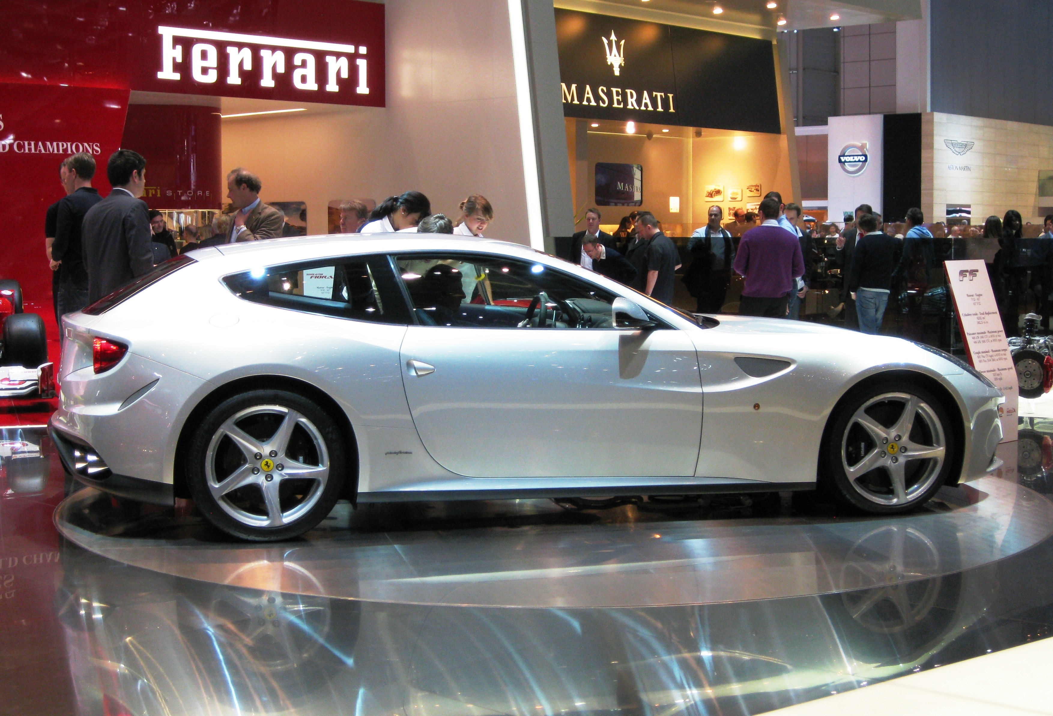 Geneva Motor Show 2011